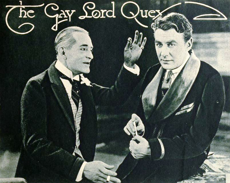 Still from the American silent film The Gay Lord Quex (1919) with Sidney Ainsworth and Tom Moore, on page 35 of the December 1919 Shadowland.